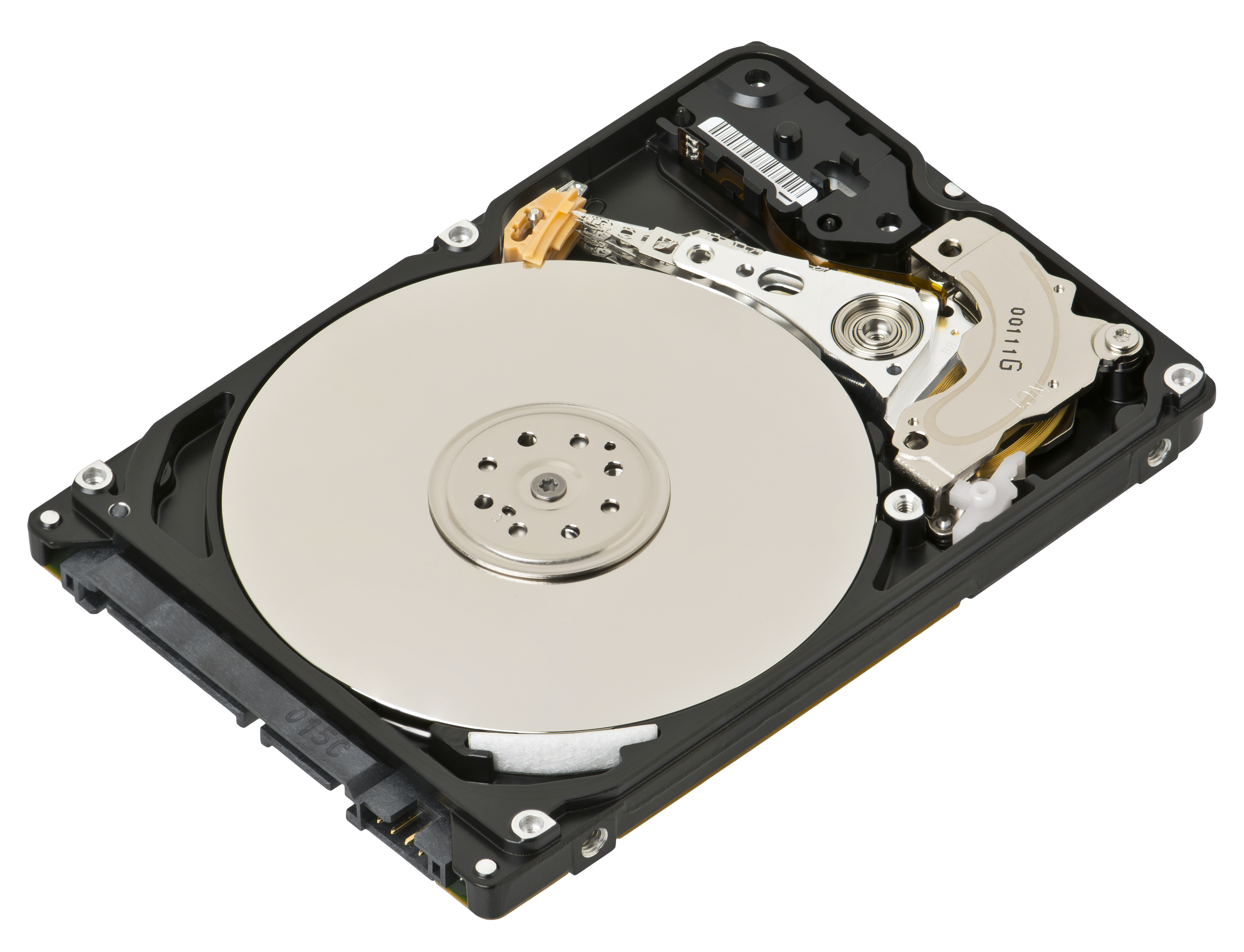 A 2.5" hard drive that has been opened, exposing its inner workings. This is a 500GB Western Digital Scorpio Blue hard drive with SATA connections. This 2.5" hard drive is common in laptops.